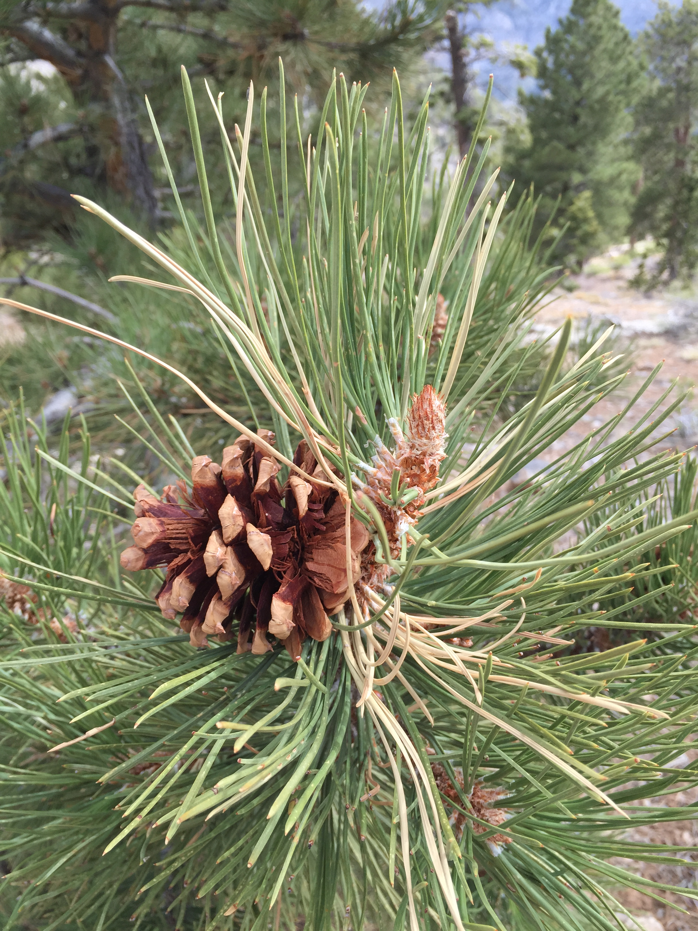 Ponderosa Pine branch, needles and cone along the Trail Canyon Trail in the Mount Charleston Wilderness, Nevada about 1.9 miles north of the trailhead